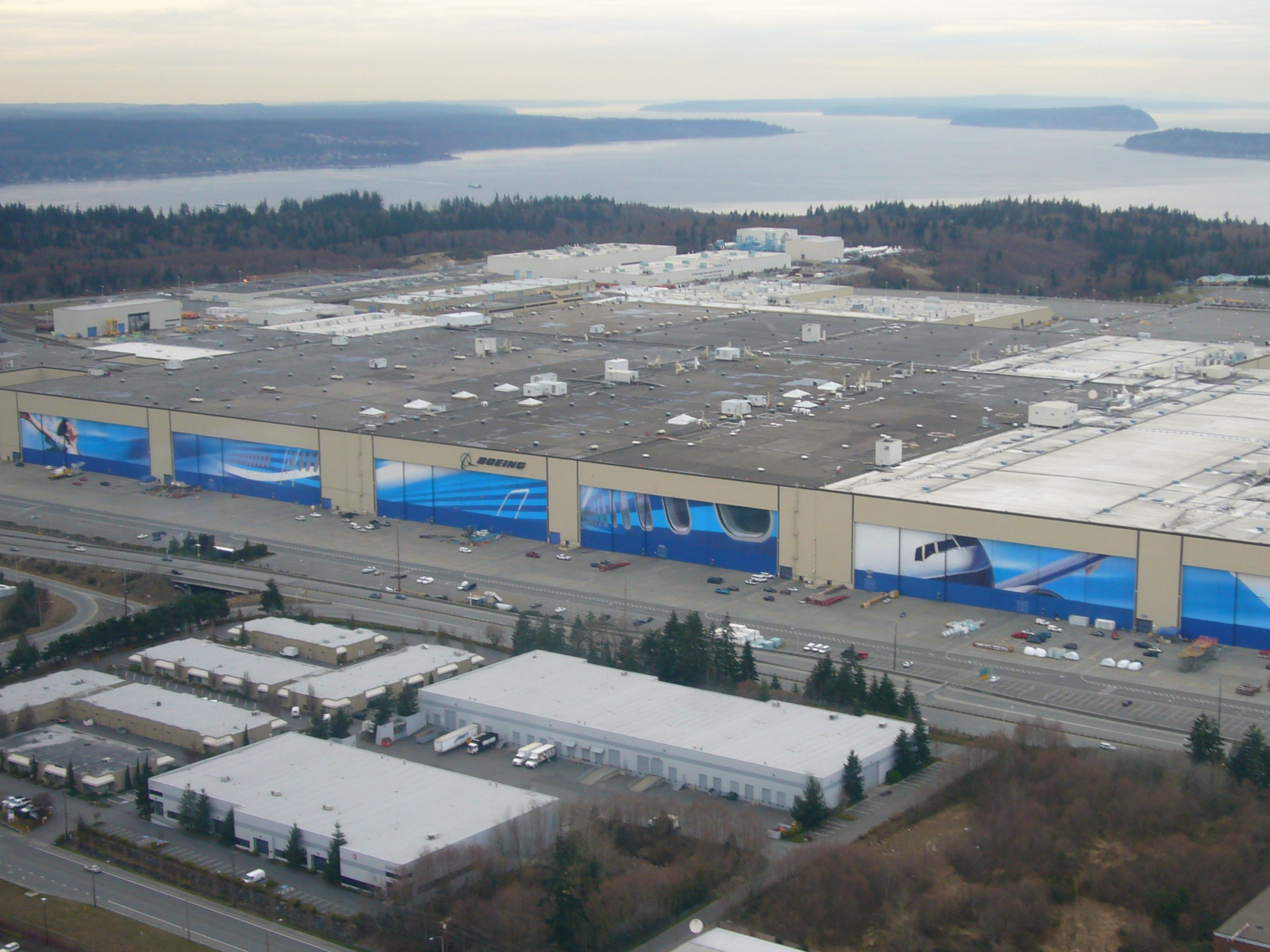 site of Boeing widebody assembly, 747, 777, 787